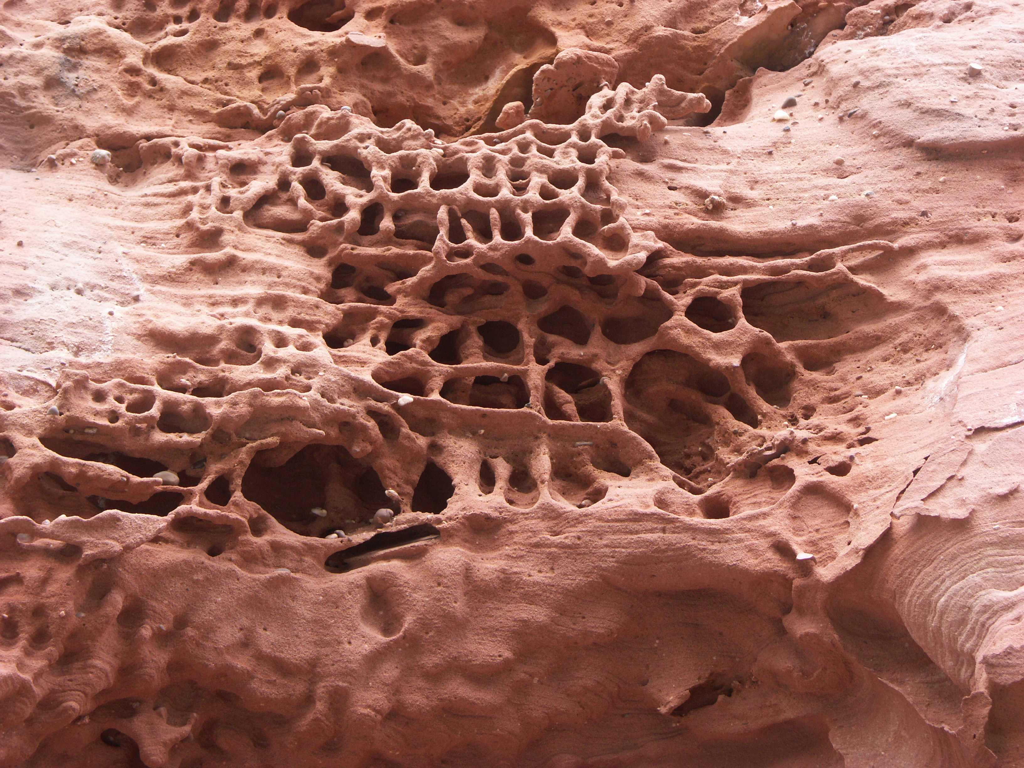 Tafoni (honeycomb-like weathering) in red, coarse, pebbly sandstone of the (probably lower part of the) Buntsandstein series, Lower Triassic; Dahn, southern Palatinate, Rhineland-Palatinate, Germany.